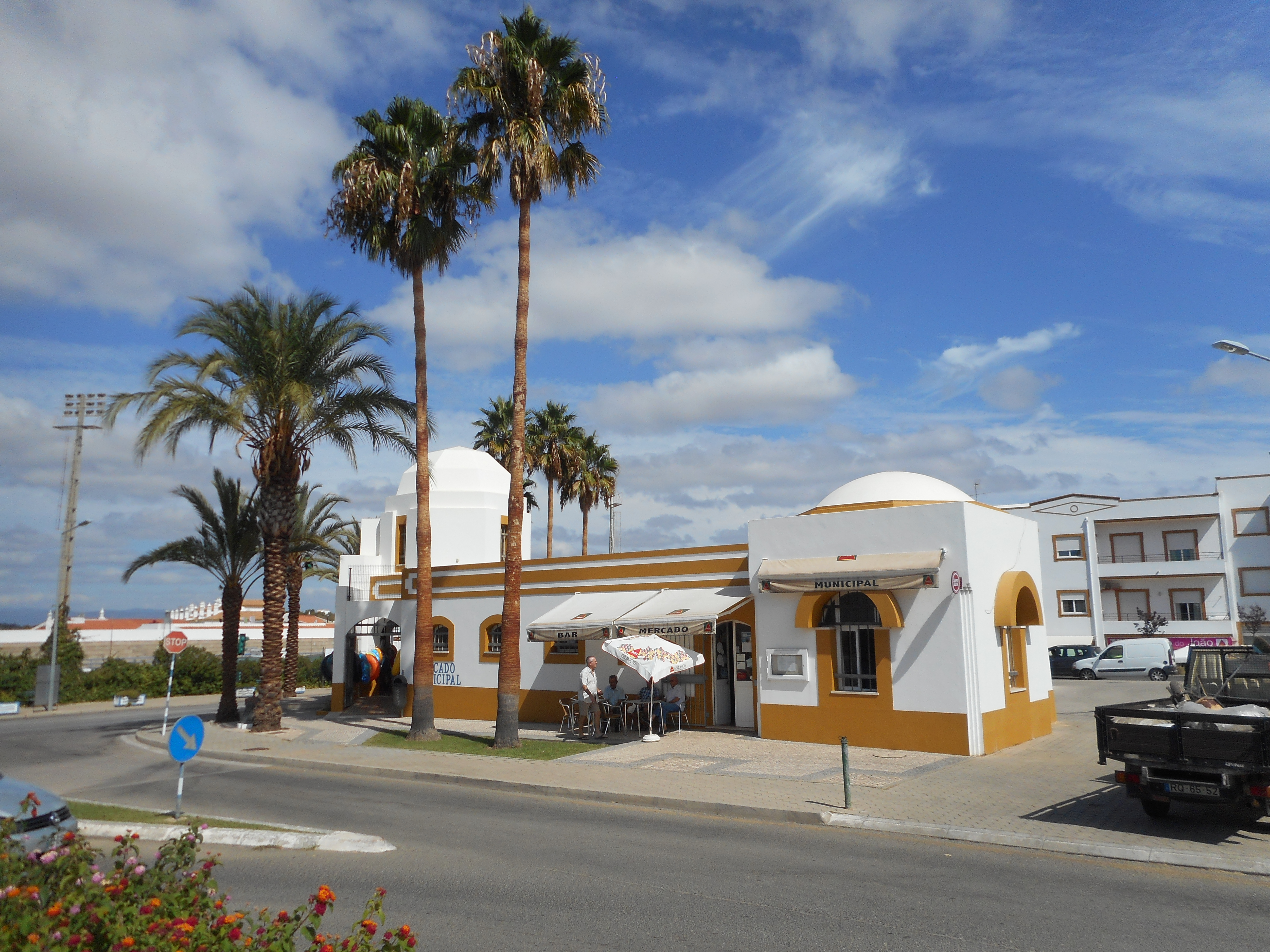 Mercado Municipal on the Rua da Liberdade within the town of Guia, Algarve, Portugal.